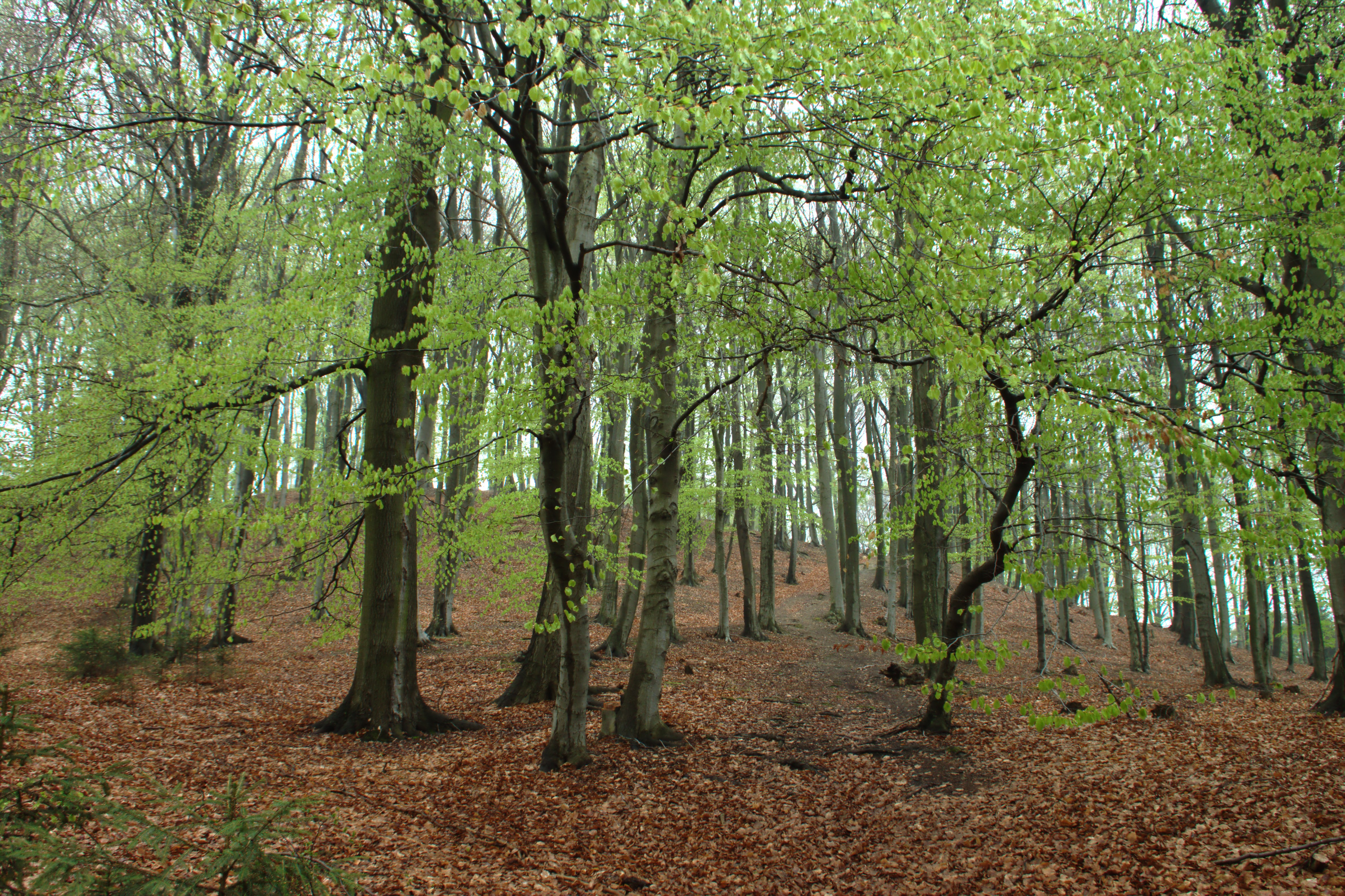 Louštín Hill near Řevničov, Central Bohemian Region, CZ